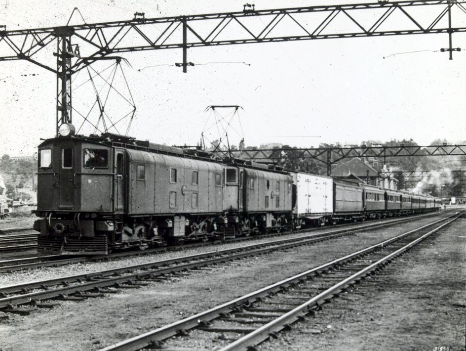 SAR Class 1E locomotives on a passenger train, Durban